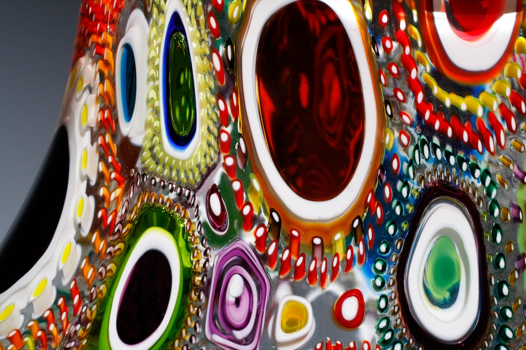 Example of blown glass utilizing murrine technique. Created by David Patchen